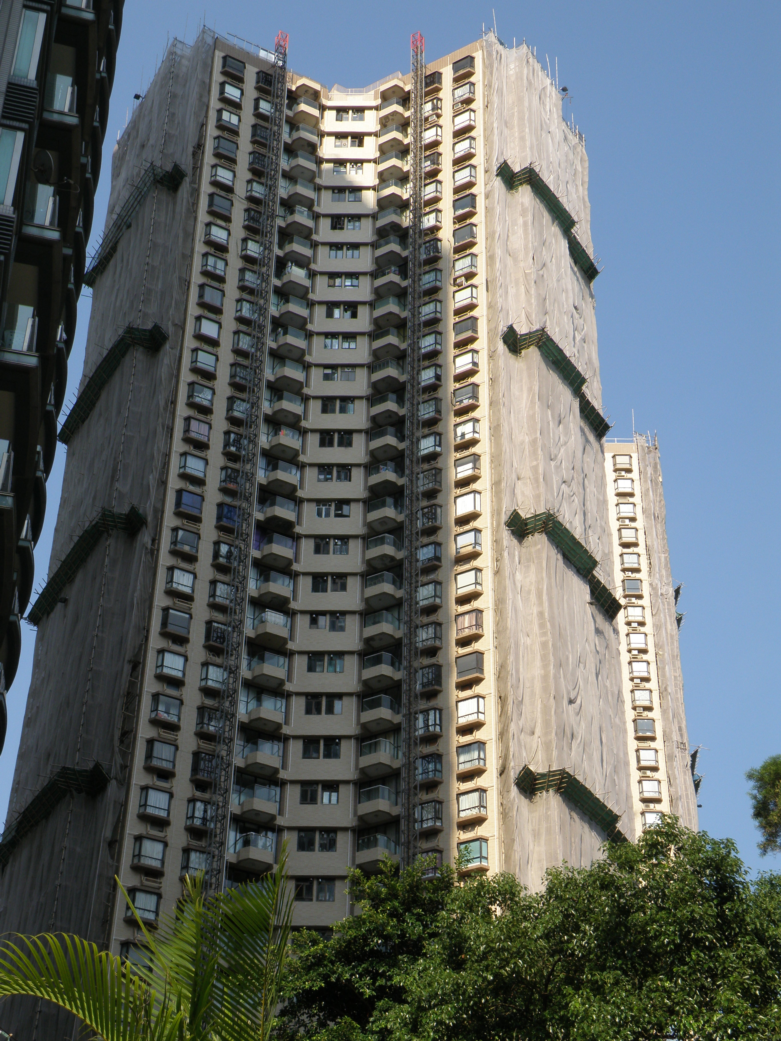 Ronsdale Garden in Tai Hang, Hong Kong.